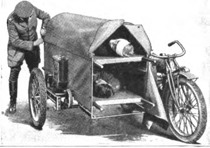 Caption: "A New Motorcycle Ambulance for Carrying Two Patients Fully Protected against Dust and Weather: At the Left it is Shown Open, Ready to Receive a Wounded Soldier; at the Right the Top is Down and the End Curtains are being Attached."